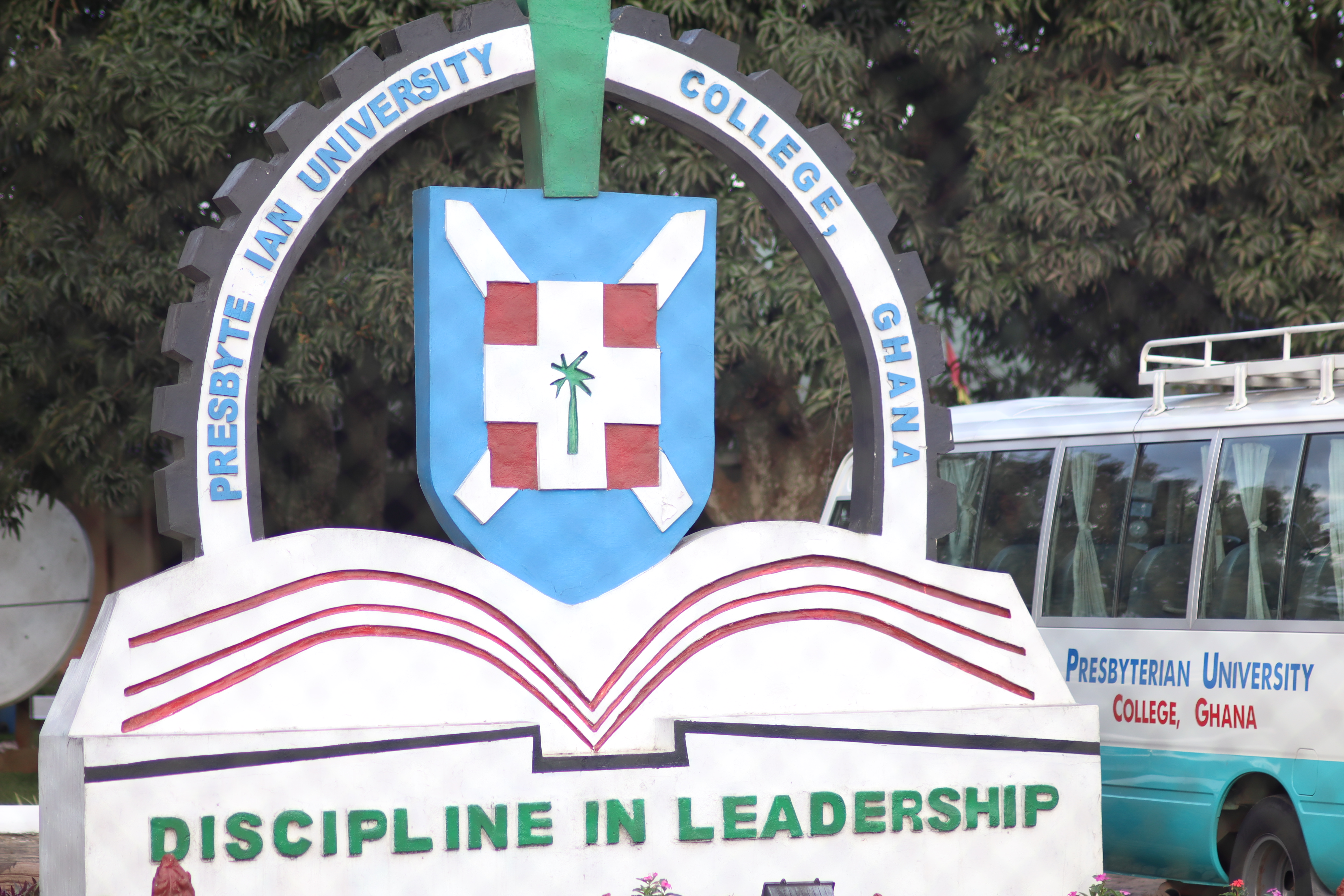 Presbyterian University College Entrance